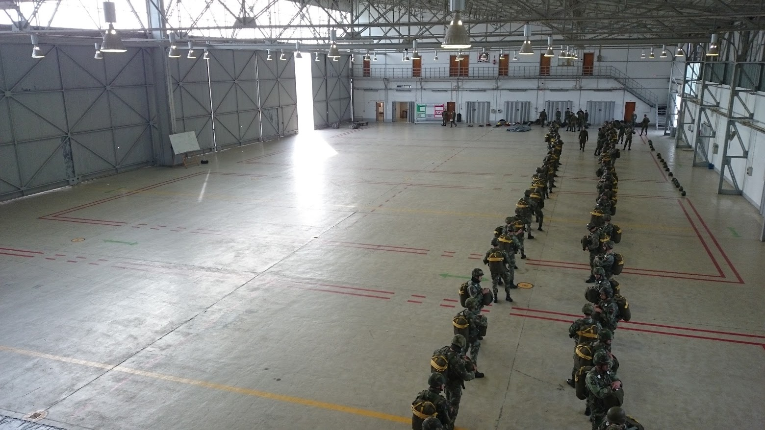 Portuguese paratroopers lining up in a "stick", before a training jump.